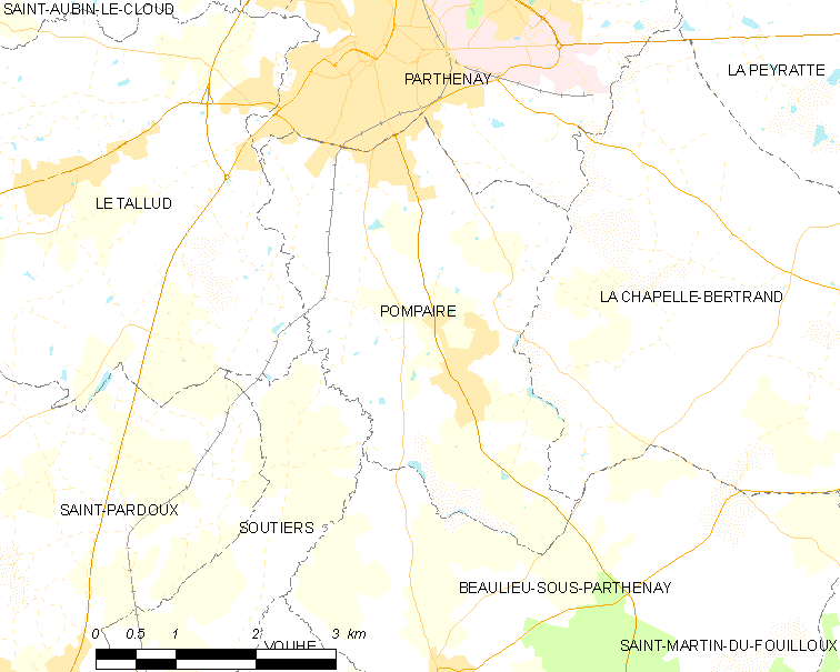 Map of French municipality Pompaire